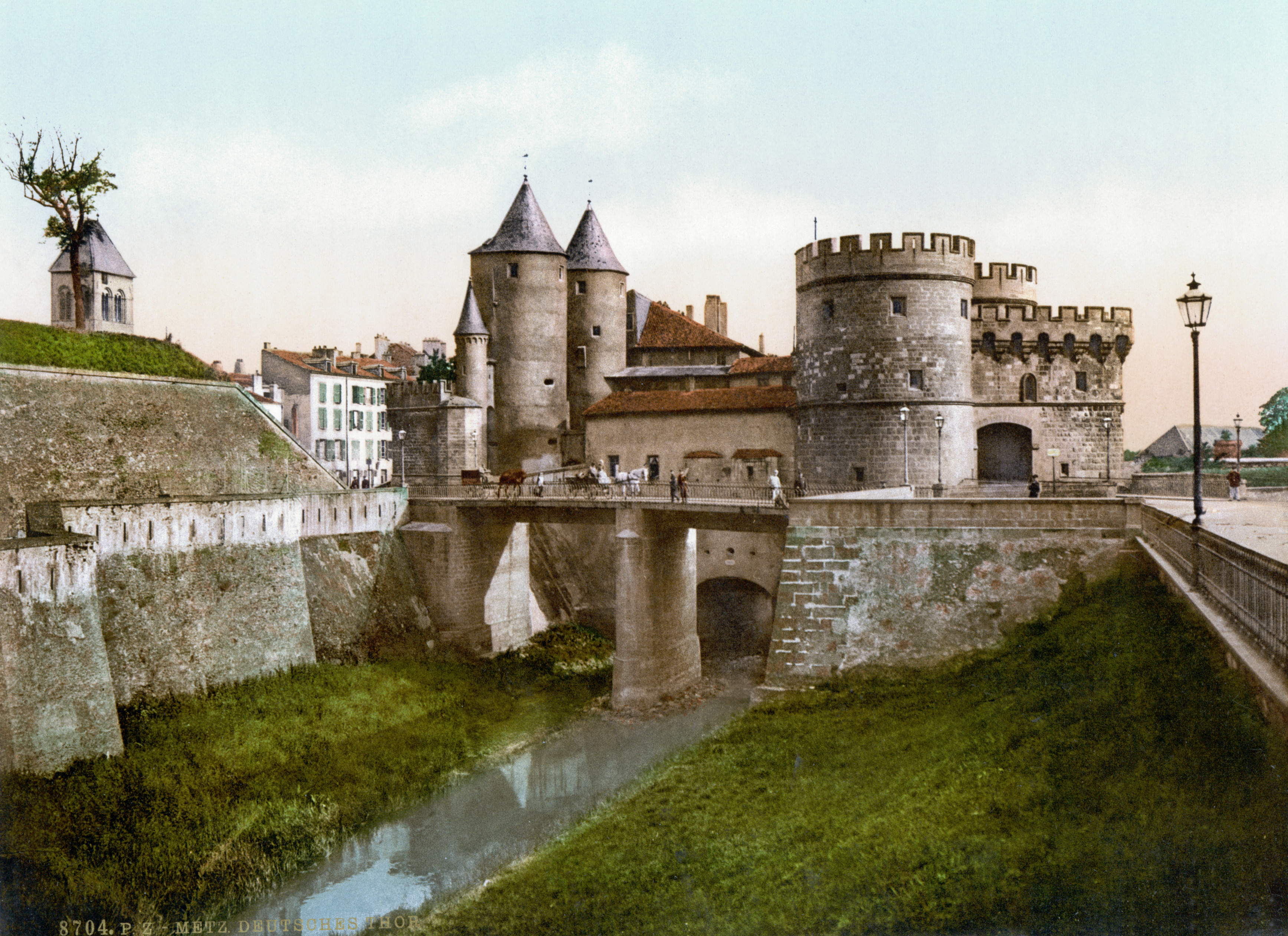 Porte des Allemands, Metz.